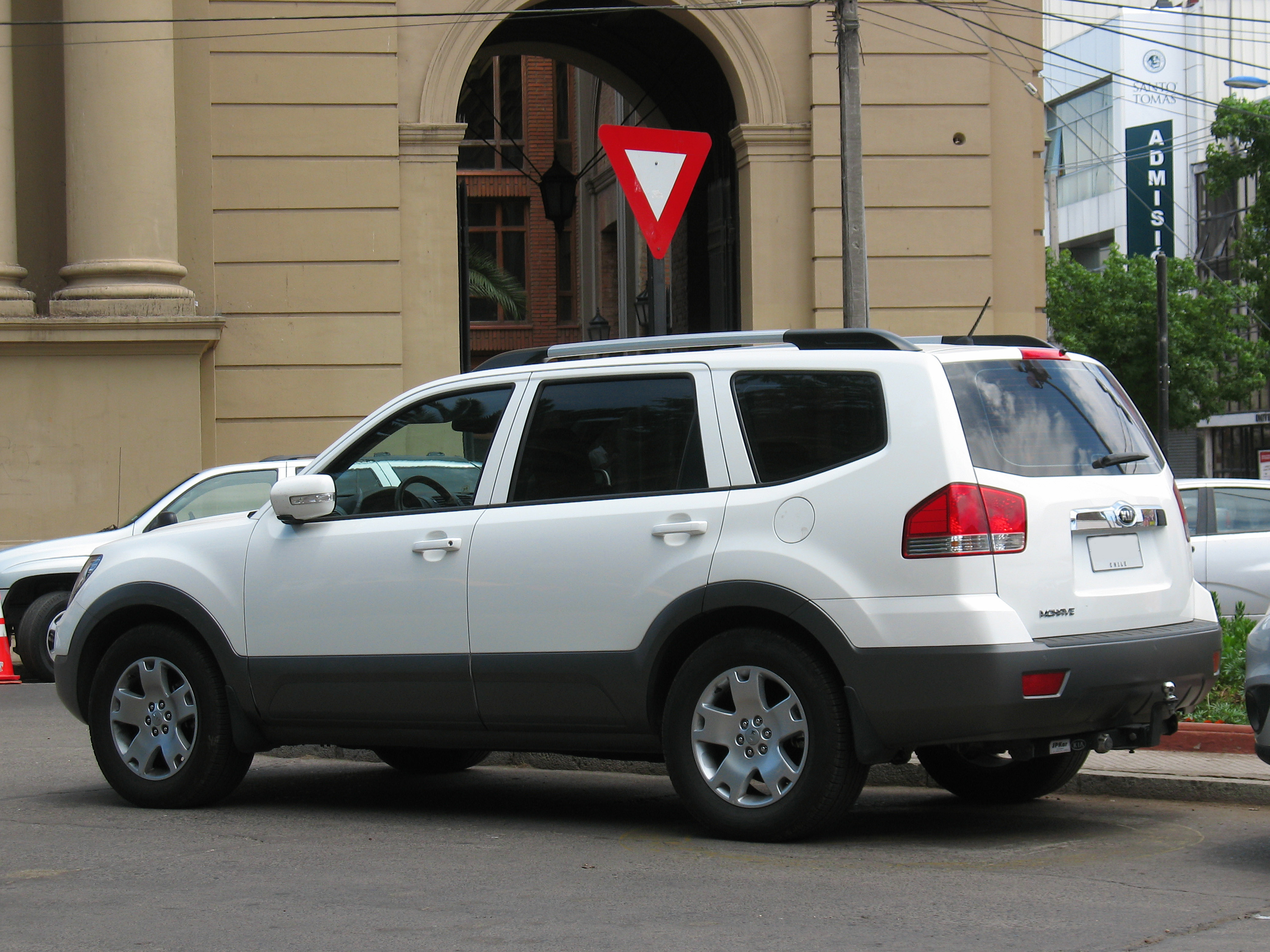 Kia Mohave EX 3.0 CRD 2014